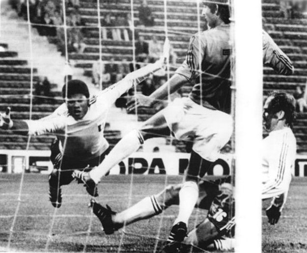 Goalkeeper Henry Francillon and defender Philippe Vorbe inefficiently saving 7:0 shot of Grzegorz Lato during match Poland-Haiti, 1974 FIFA World Cup, 19.06.1974